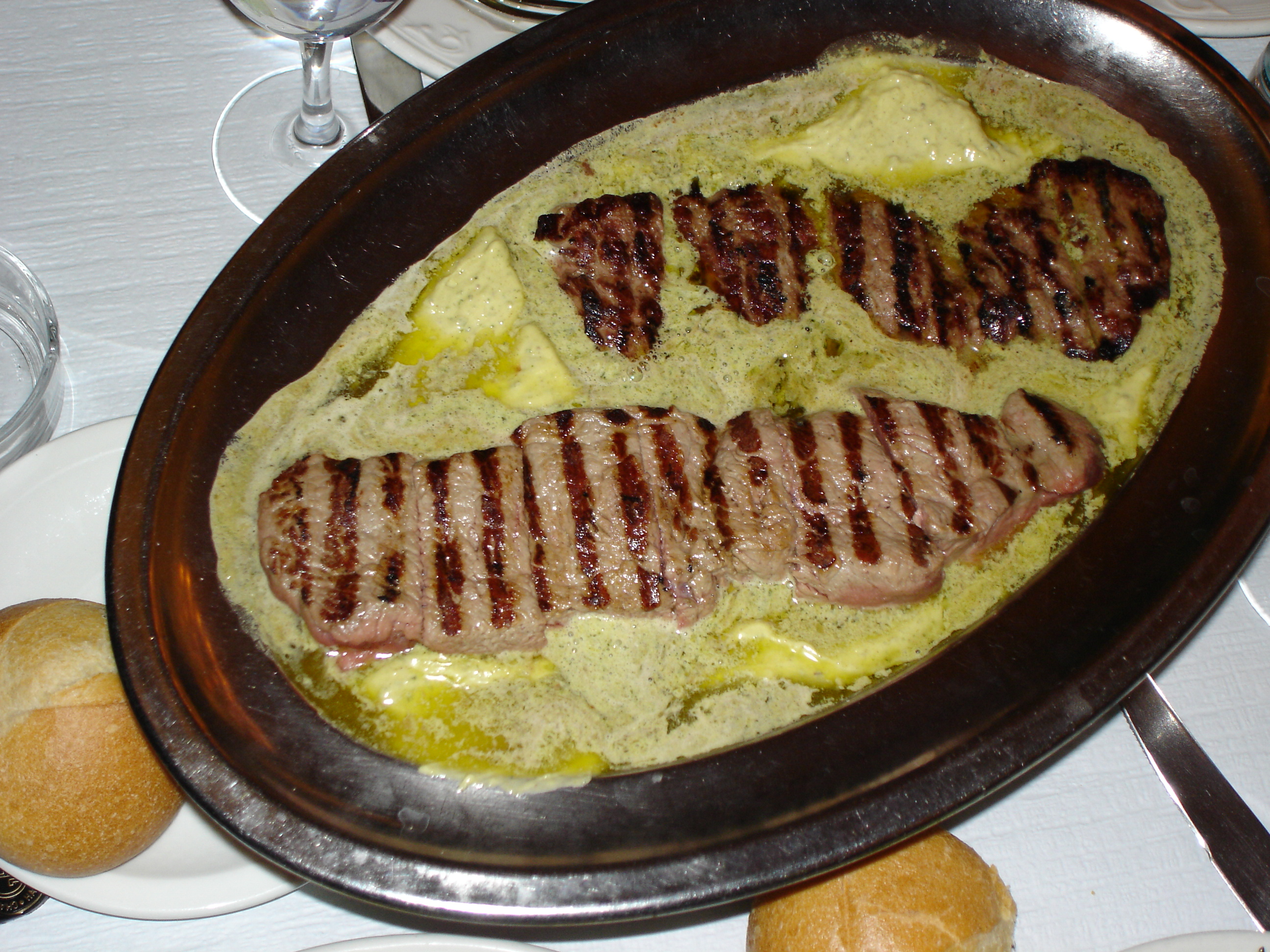 Two entrecôtes on a bed of Café de Paris sauce (one very rare and the other well done)